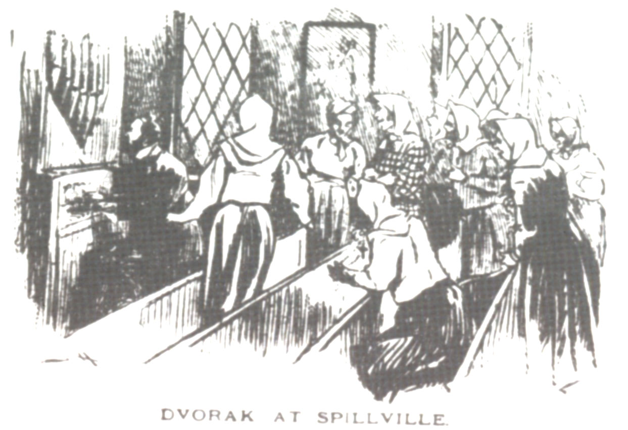 Antonin Dvorak in Spillville (Iowa) Česky: Antonín Dvořák ve Spillvilu (Iowa)